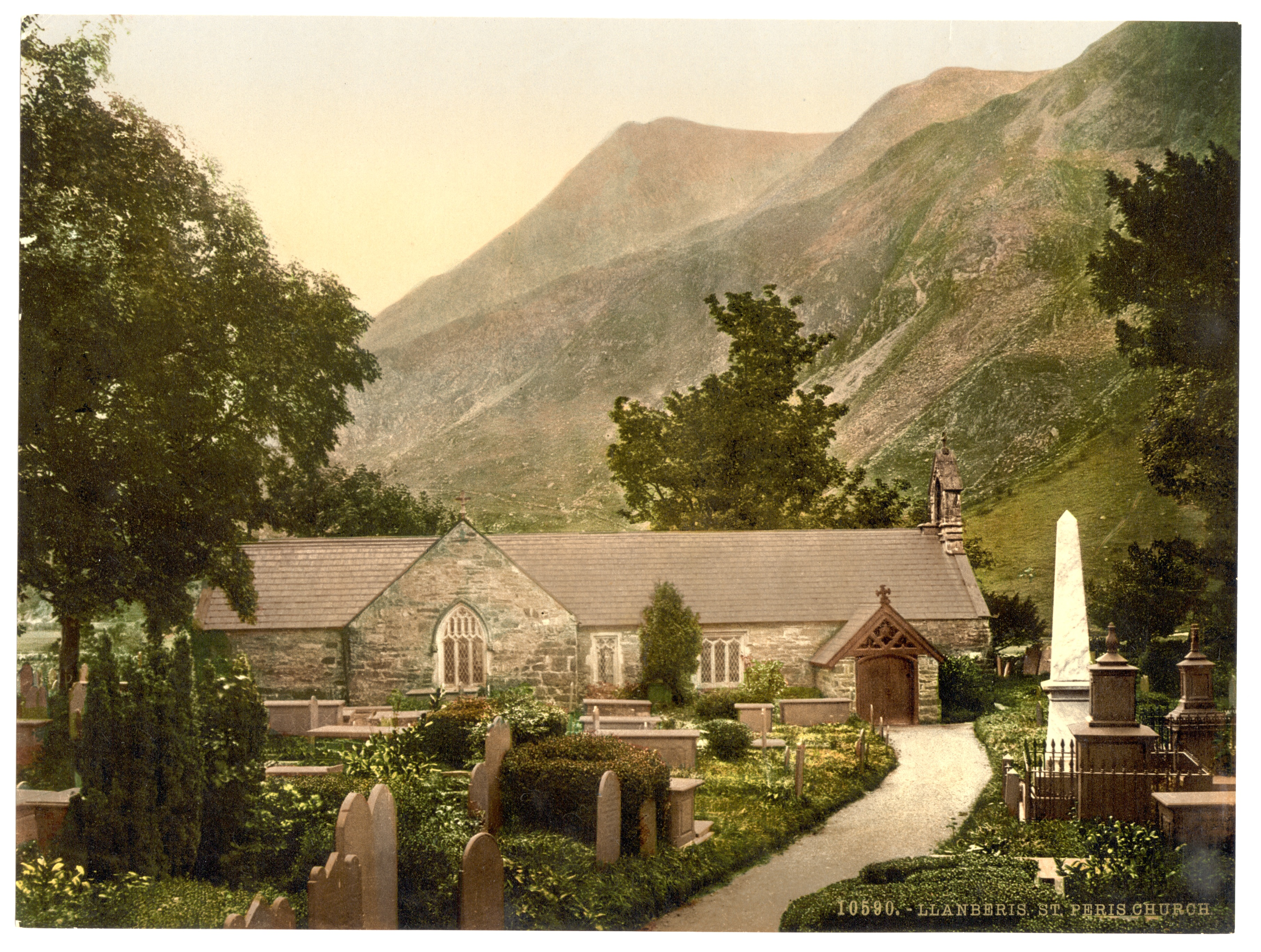 Title from the Detroit Publishing Co., catalogue J-foreign section. Detroit, Mich. : Detroit Photographic Company, 1905.; More information about the Photochrom Print Collection is available at Forms part of: Views of landscape and architecture in Wales in the Photochrom print collection.; Print no. "10590".